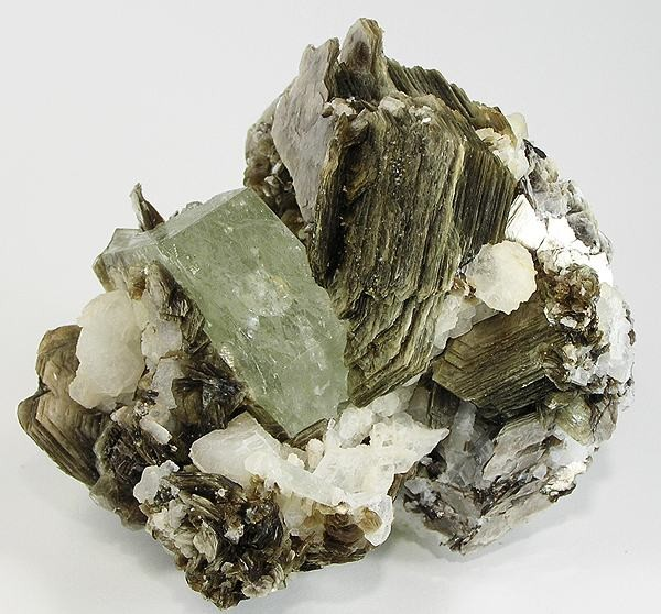 Beryl (Var.: Aquamarine), Muscovite, Albite (Var.: Cleavelandite) Locality: Galiléia, Doce valley, Minas Gerais, Southeast Region, Brazil (Locality at ) Size: 10.8 x 9.8 x 8.8 cm. Here is a very large, transparent crystal of aquamarine, of hexagonal tabular form, from Brazil. This impressive 5-cm crystal is gorgeously set amongst thick books of shimmering, very large sheety crystals of muscovite. Milky cleavelandite adds a final pretty accent.